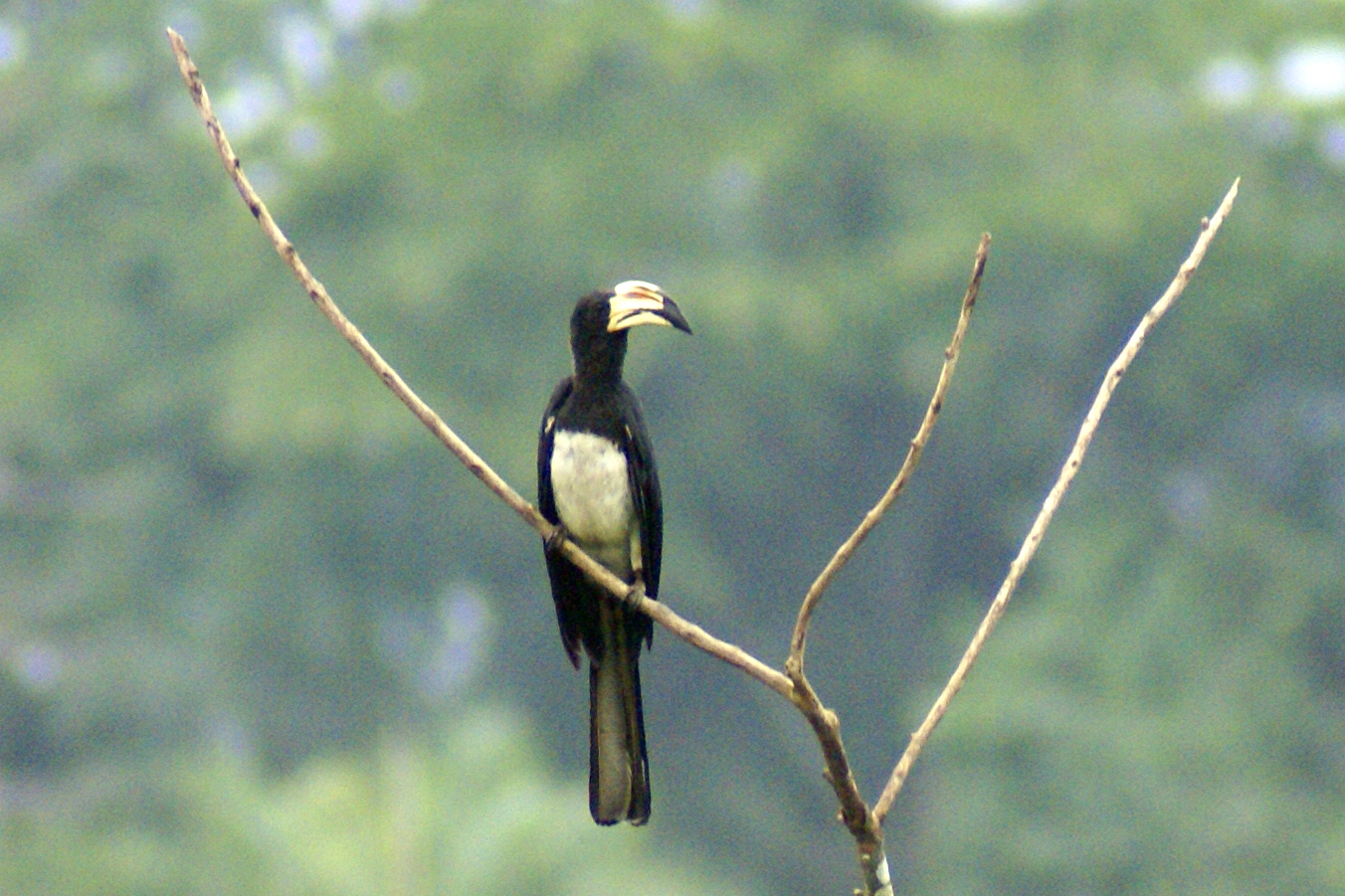 African Pied Hornbill Tockus fasciatus